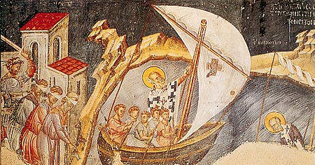 Miracle of Saint Nicholas in the Sea Fresco in Saint Nicholas Orphanos Church, 1310-1320